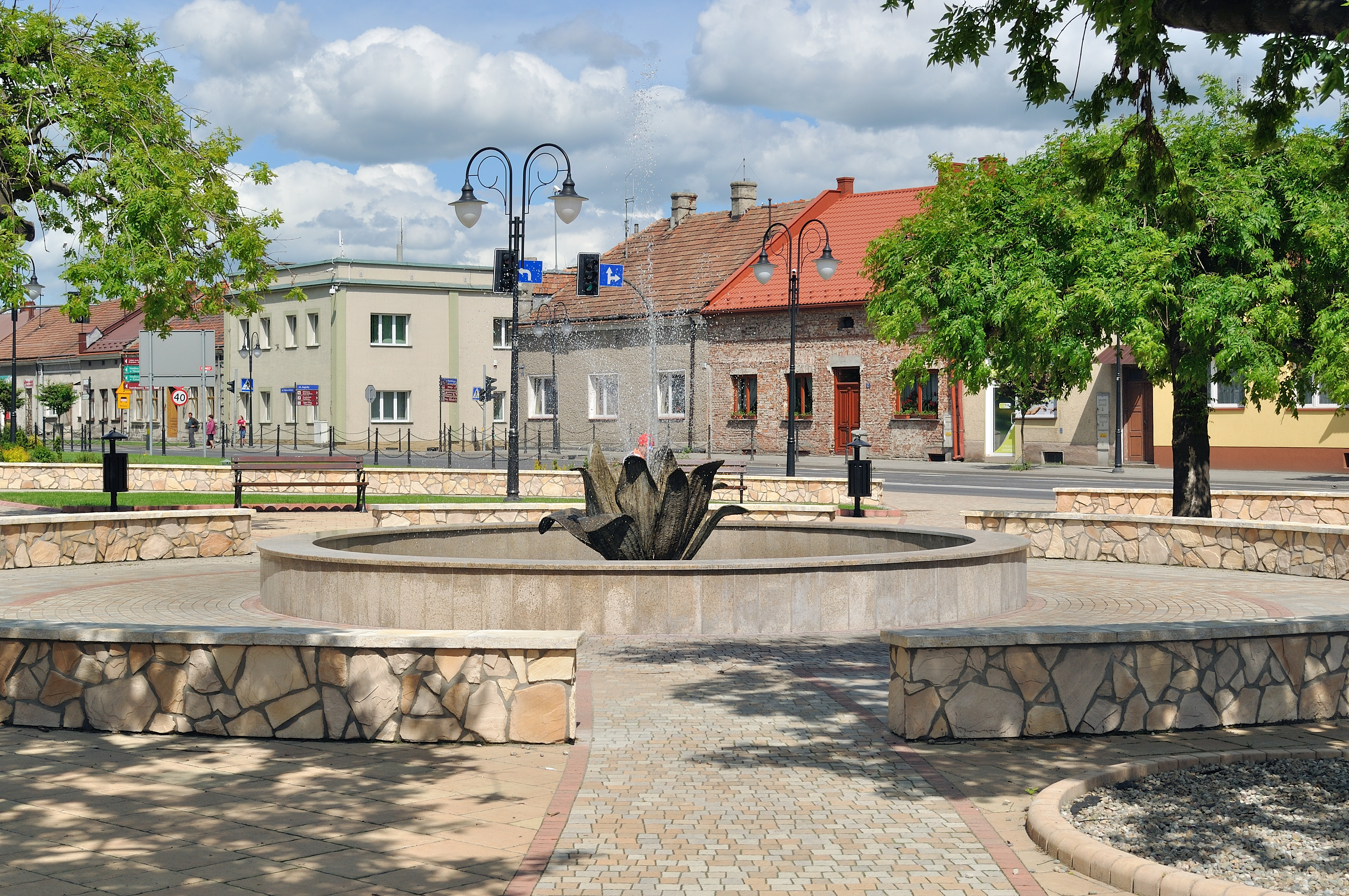 The fountain in the Market Square in Żabno